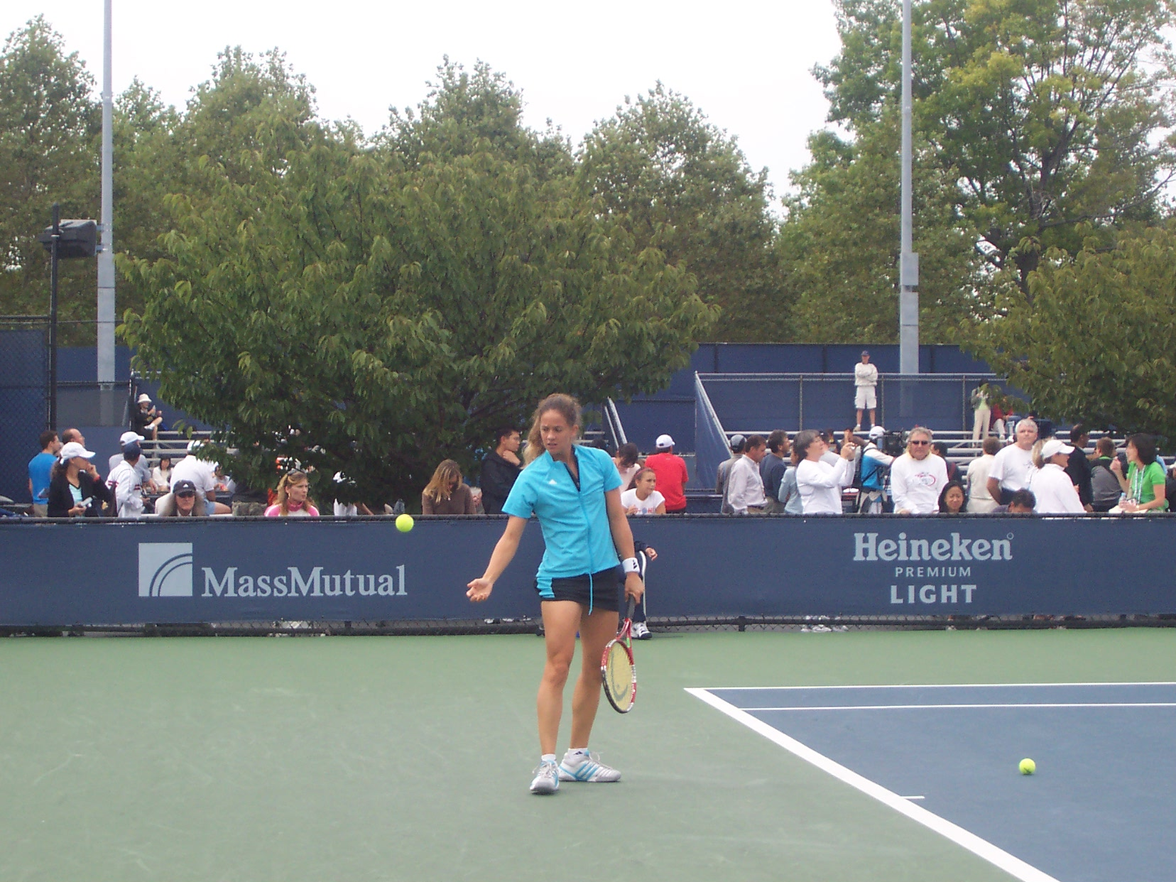 Patty Schnyder Playing At The 2006 U.S. Open